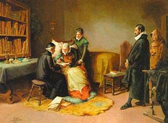 The Last Days of Cervantes